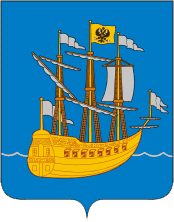 Lodeinoe Pole (Leningrad oblast), coat of arms